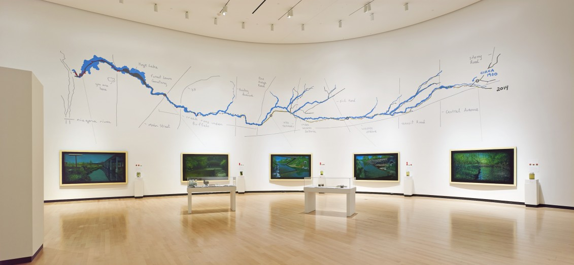 Installation of "Alberto Rey: Biological Regionalism: Scajaquada Creek, Buffalo, New York, USA, 2012-13" exhibition at the Burchfield-Penney Art Center in 2014. Photo by Biff Henrich. Photo owned and used with permission from artist.